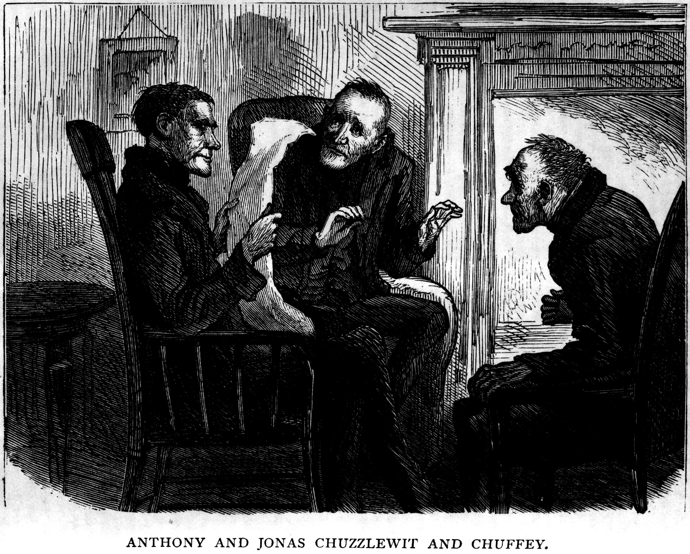 Illustration from 1867 U.S. edition of Martin Chuzzlewit. Page 173. "Anthony and Jonas Chuzzlewit and Chuffey"